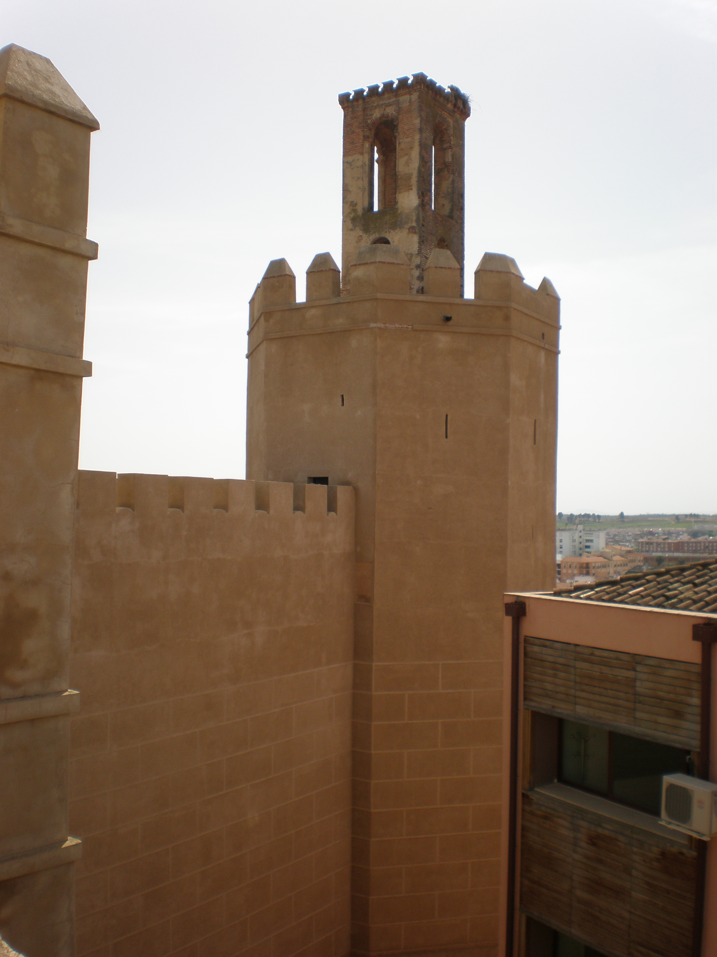 Alpéndiz Tower, of Alcazaba de Badajoz.